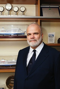 Photo of Manfredi Lefebvre d'Ovidio